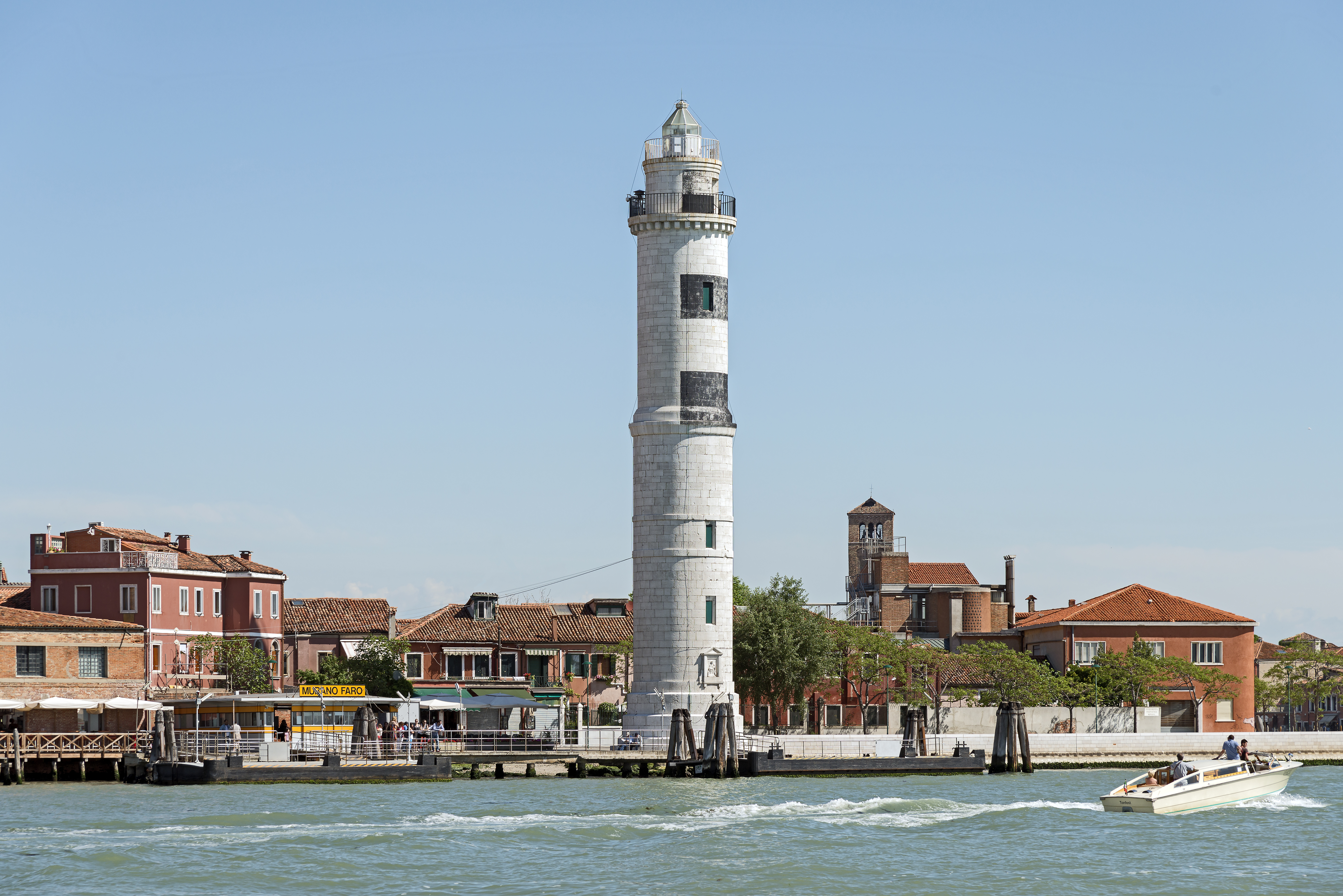 Vaporetto stops in Murano : Faro